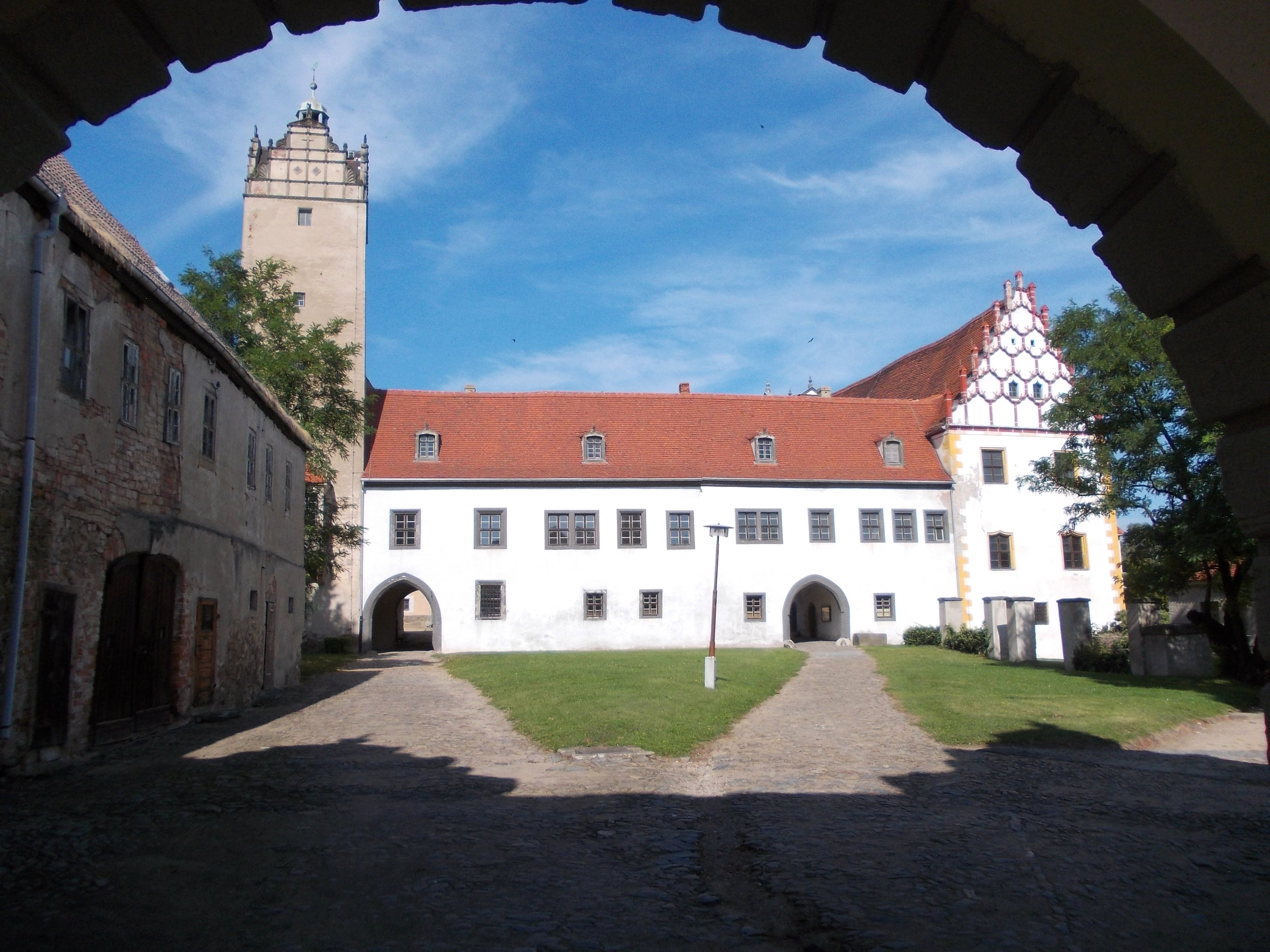 Strehla castle (Meissen district, Saxony)